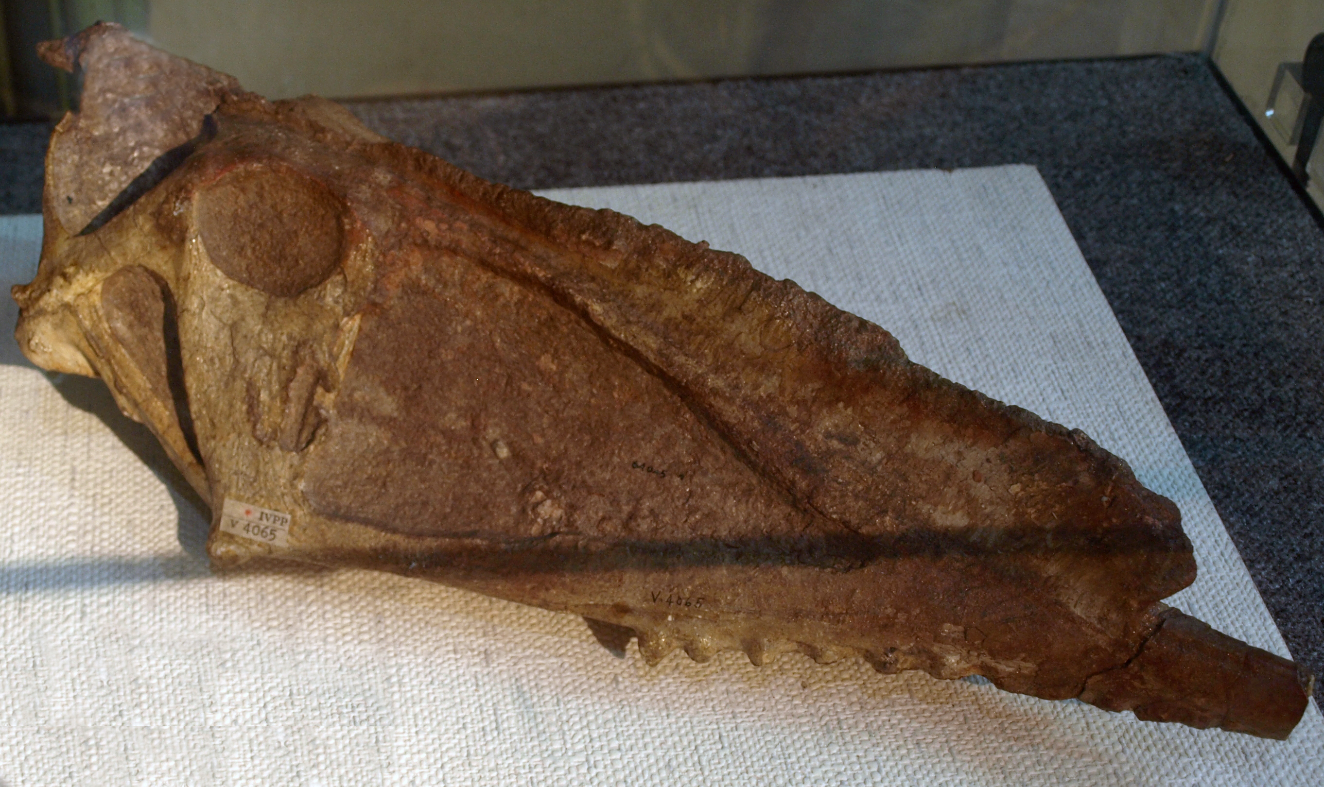 Fossil skull of Dsungaripterus weii on display at the Paleozoological Museum of China.